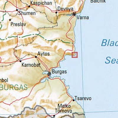 Bulgaria 1994 CIA map, city: part of the map Bulgaria_1994_CIA_map.jpg This image is in the public domain because it contains materials that originally came from the United States Central Intelligence Agency's World Factbook.